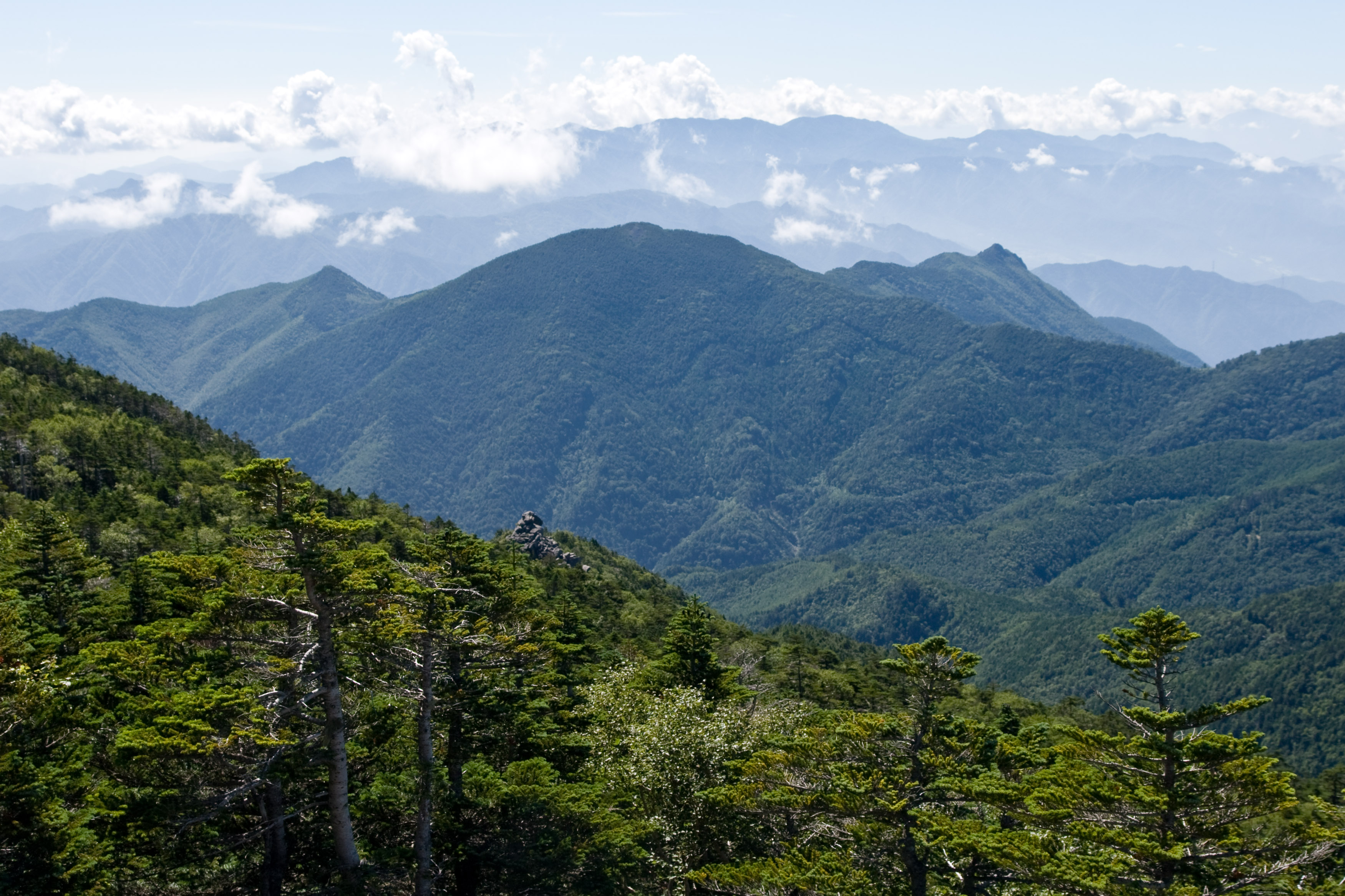 Mount Kurogane (Kurogane-yama) as seen from Mount Kokushi in the Okuchichibu Mountains, Yamanashi Prefecture, Japan